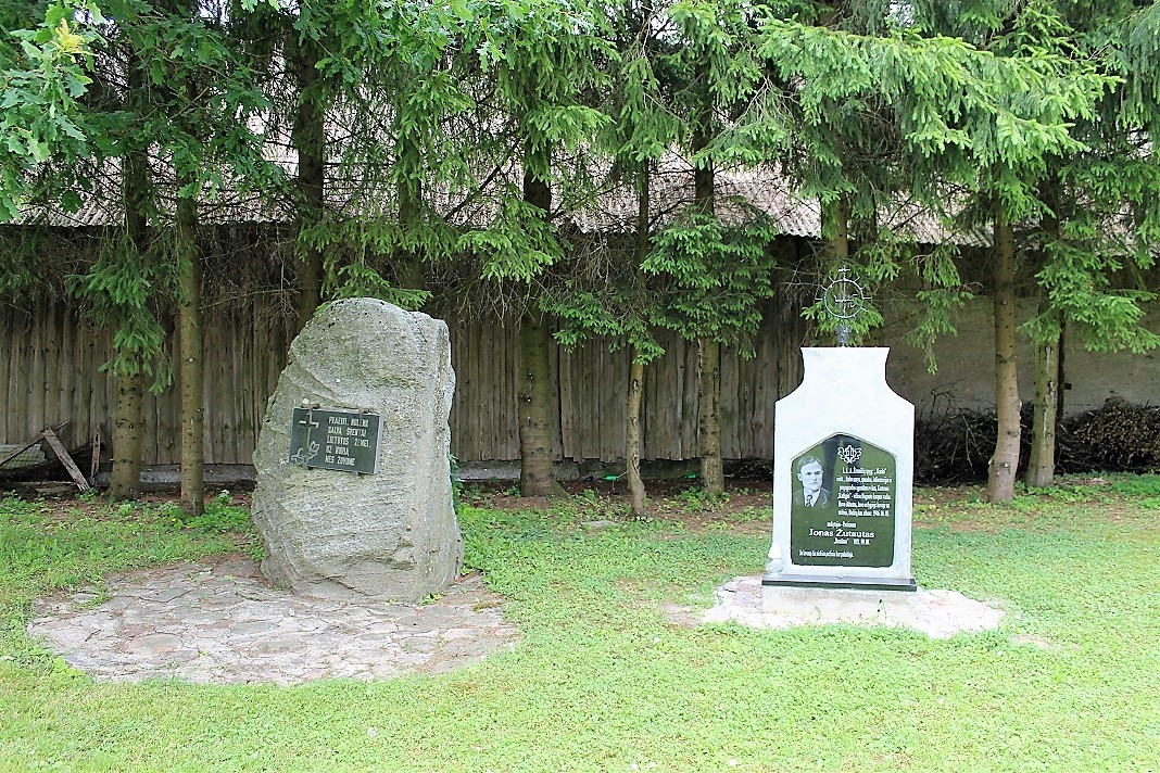 Kartena town, Kretinga district, LithuaniaLietuvių: Kartenos miestelis, Kretingos rajonas, Lietuva